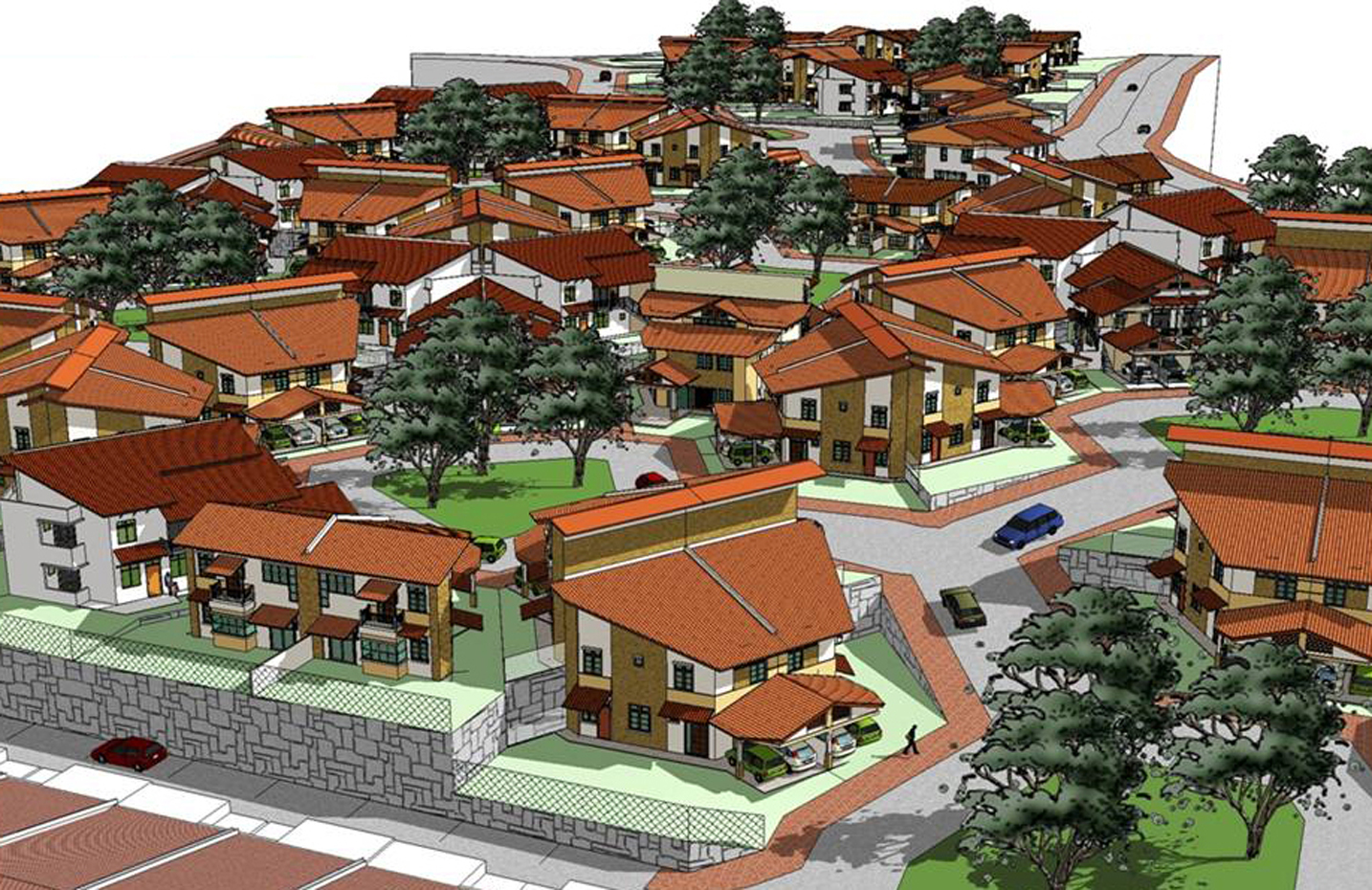 Bird's eye view of hillside Honeycomb at Nong Chik